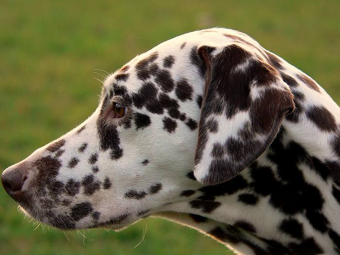 A liver Dalmatian